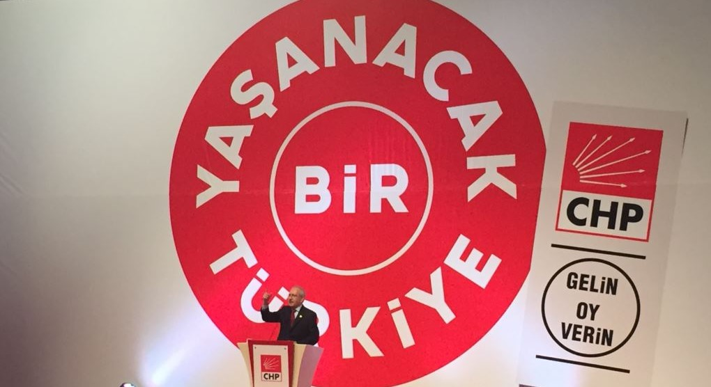 Party leader Kemal Kılıçdaroğlu announcing the CHP manifesto for the 2015 general electionTürkçe: Kemal Kılıçdaroğlu, Cumhuriyet Halk Partisi'nin 2015 Türkiye genel seçimleri bildirgesini açıklarken.